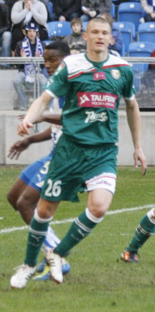 Przemysław Kaźmierczak. Lech v Śląsk Wrocław on 25th march 2012